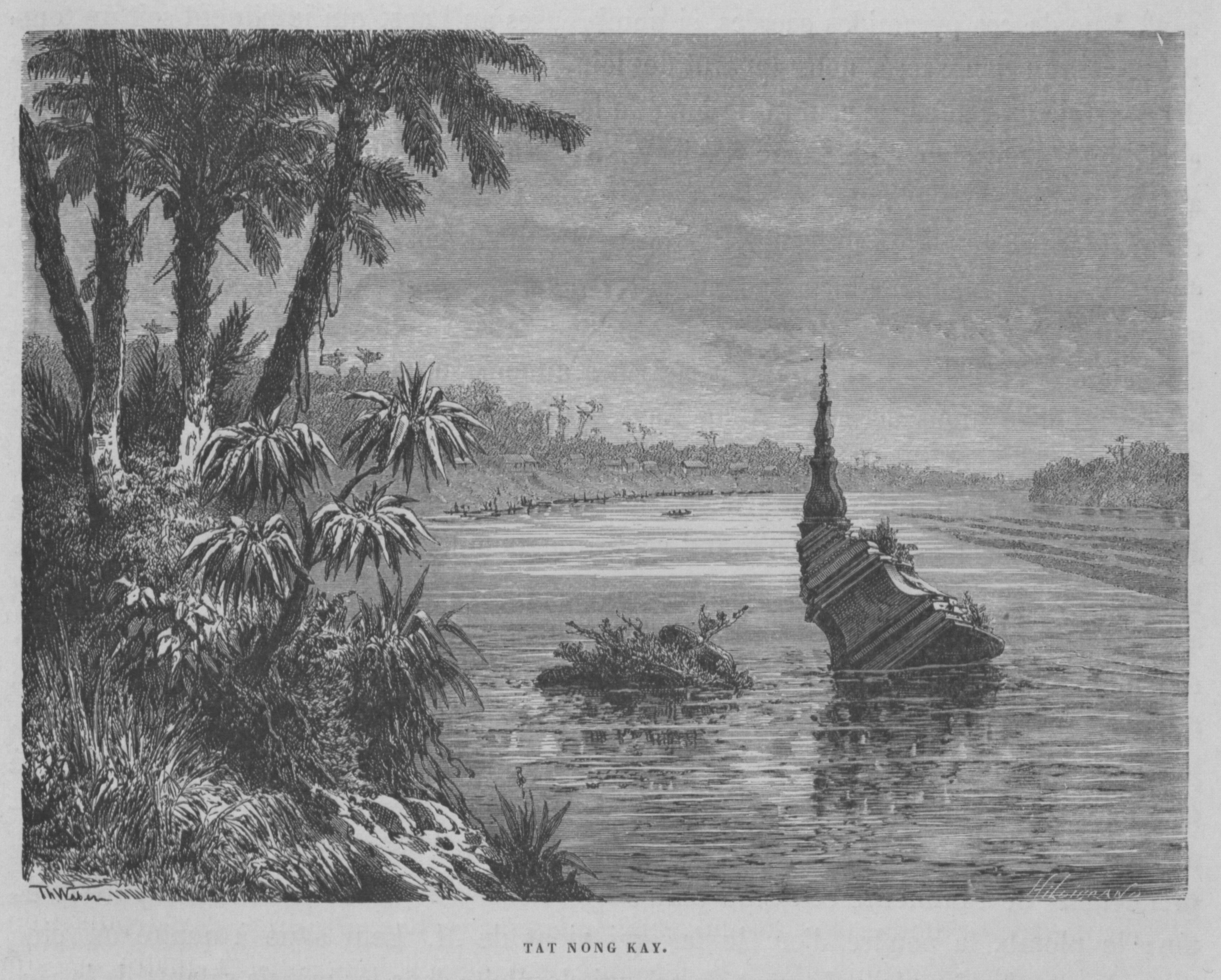 Voyage d'exploration en Indo-Chine (1873, Francis Garnier)